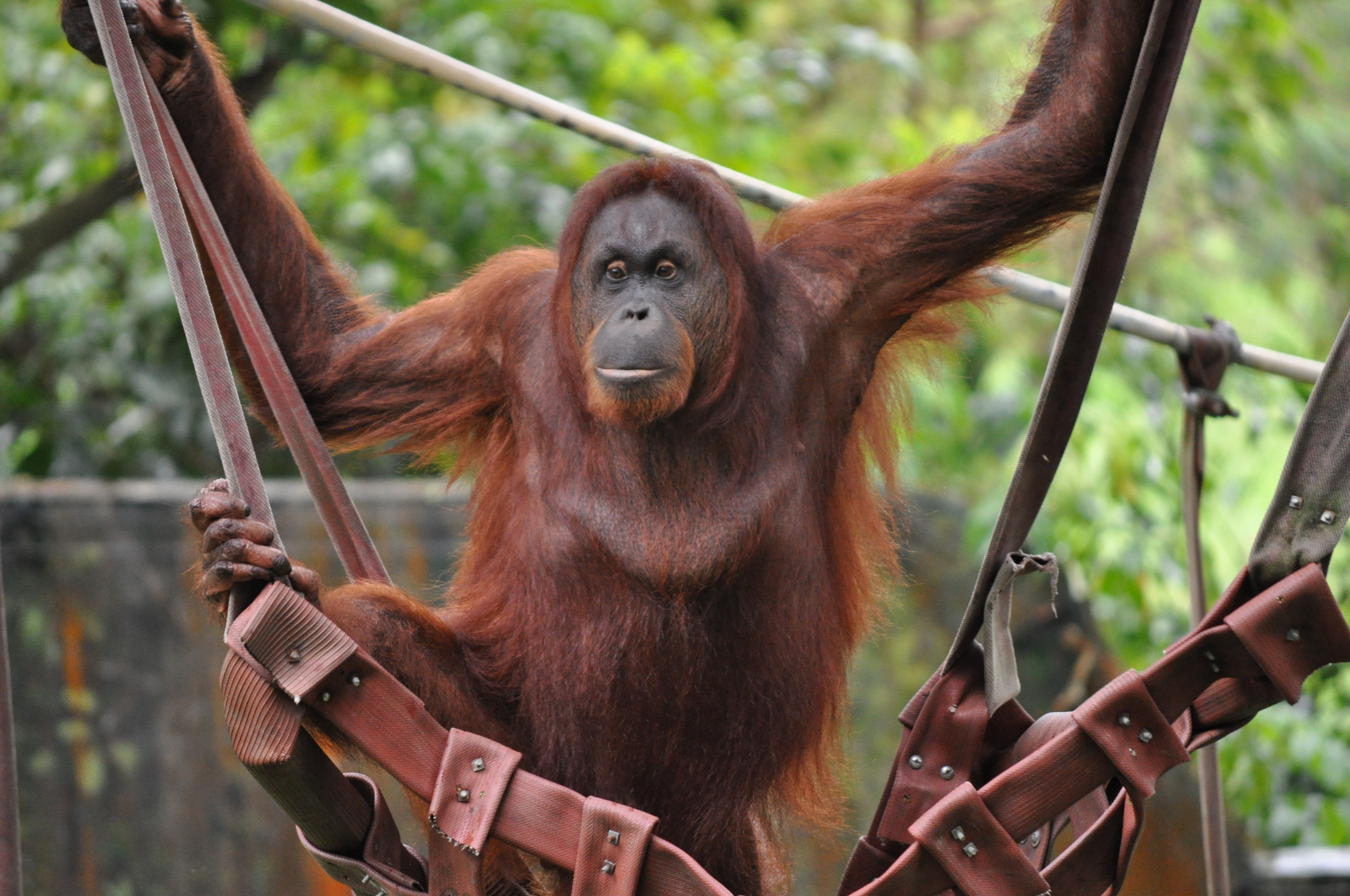 A captive orangutan at Kuala Lumpur Zoo, Malaysia.